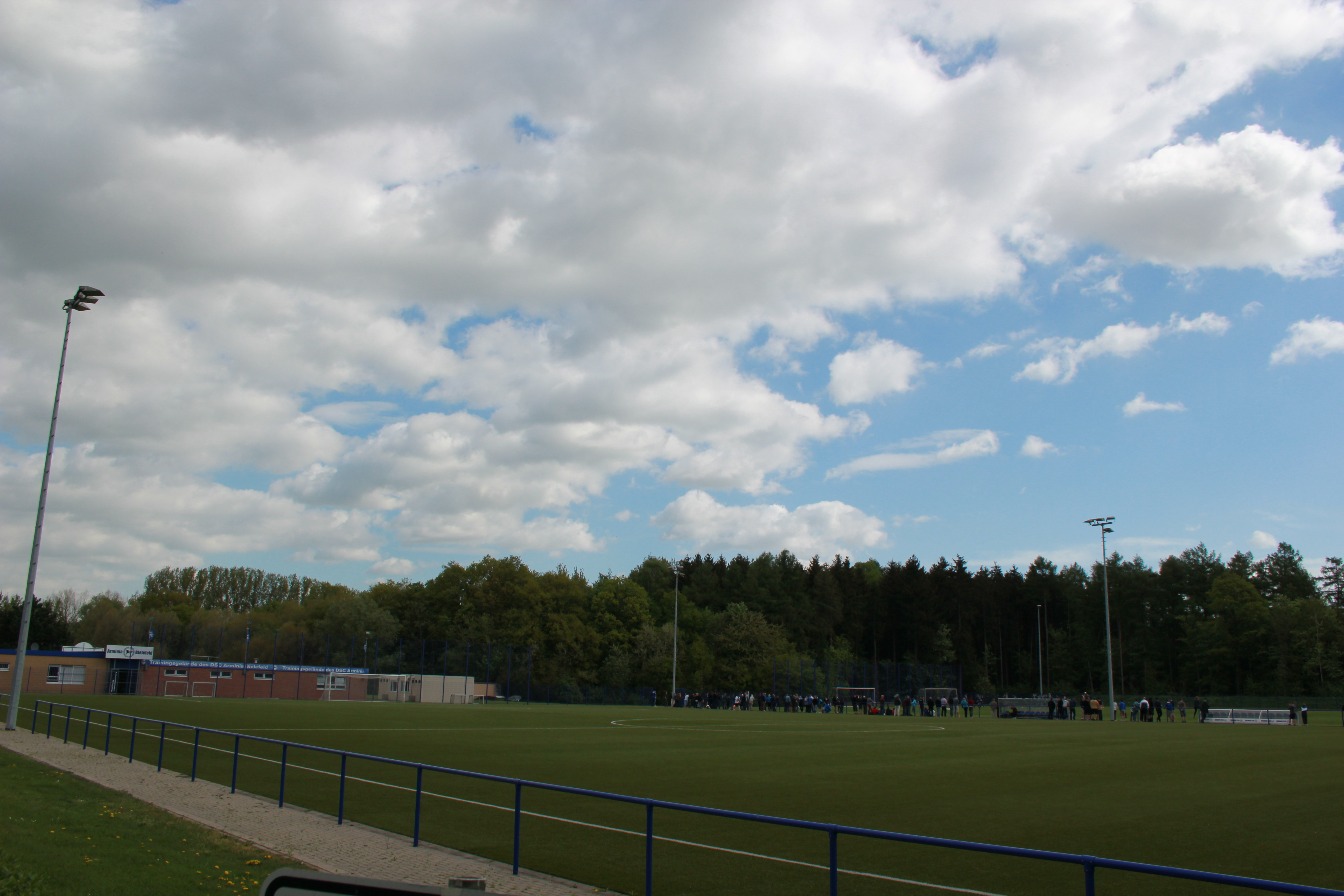 Training Center of DSC Arminia Bielefeld